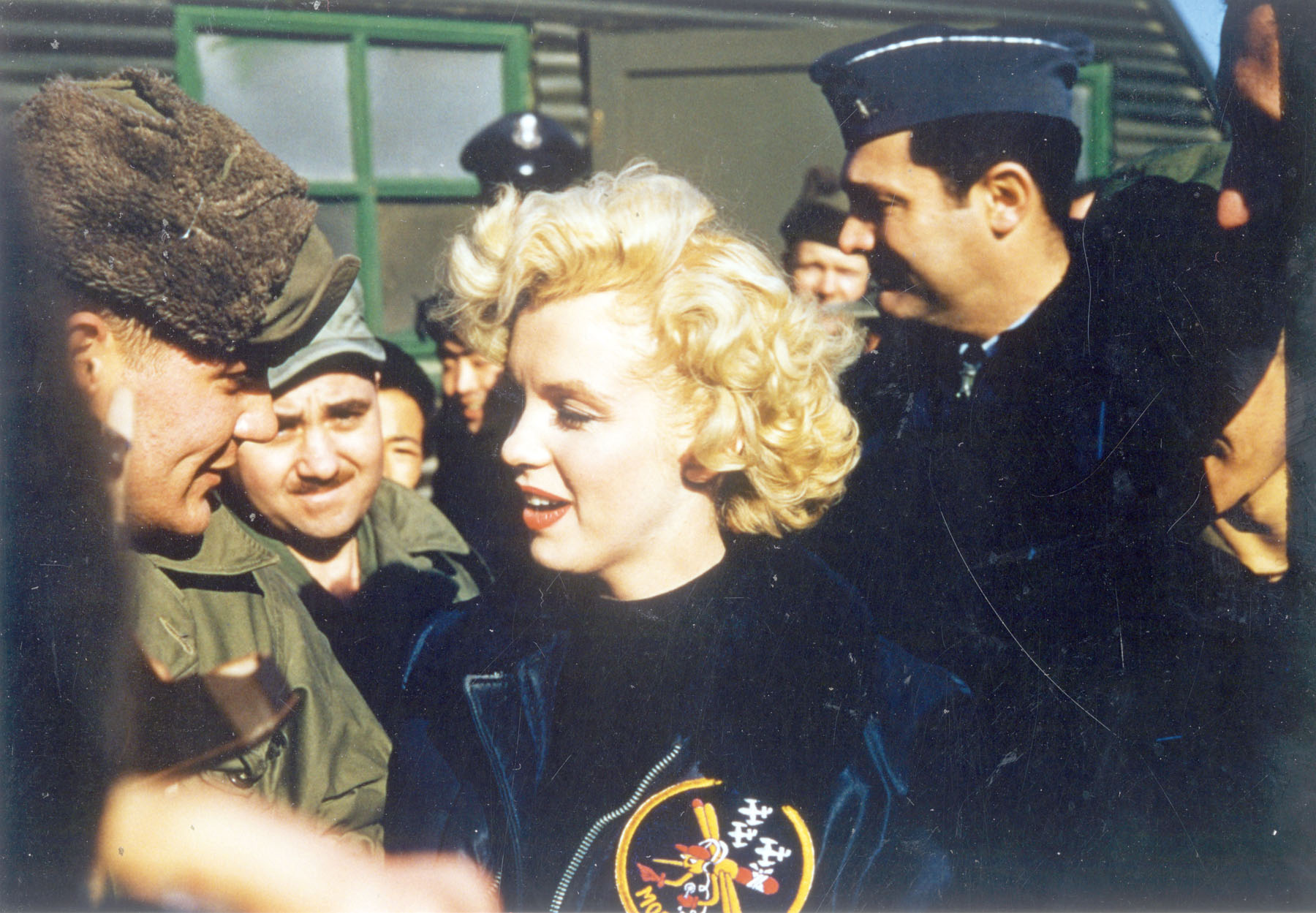 While Marilyn Monroe was on her honeymoon in Japan, she was asked to fly to Korea and perform for the American G.I.'s there. Here, Monroe is among Air Force personnel and wearing a 6147th Tactical Control Group jacket. Image credit: U.S. Air Force photo.